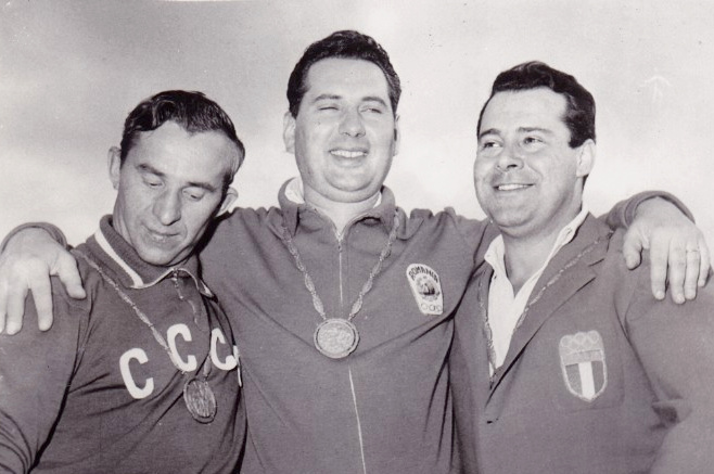 Trap shooting podium at the 1960 Olympics. Left-right: Sergei Kalinin, Ion Dumitrescu, Galliano Rossini